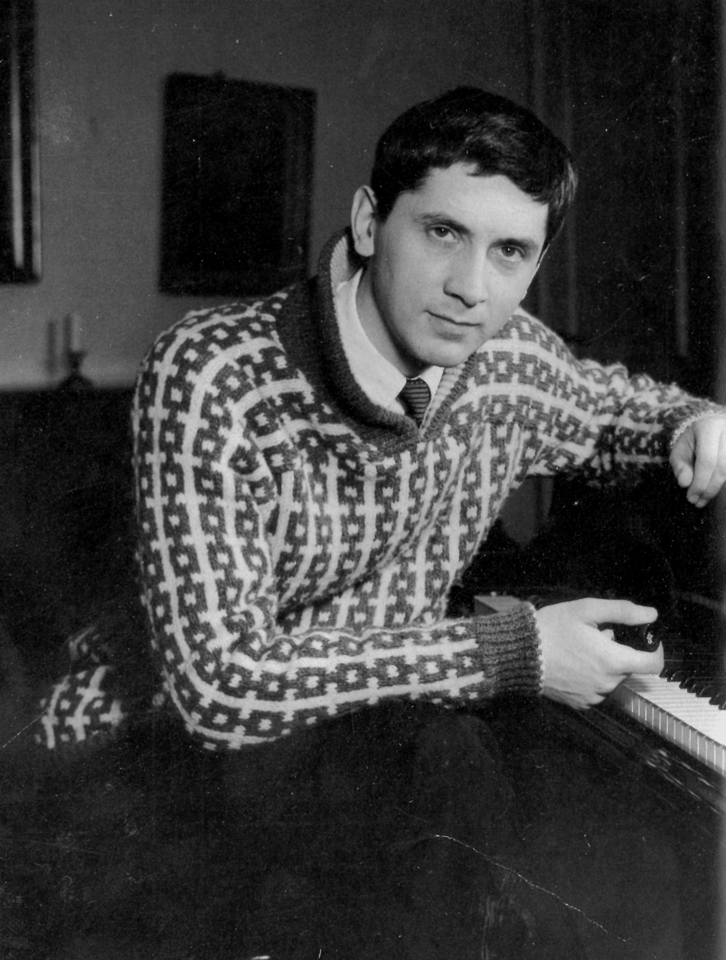 Photograph of the Finnish composer Einojuhani Rautavaara (1928–2016).